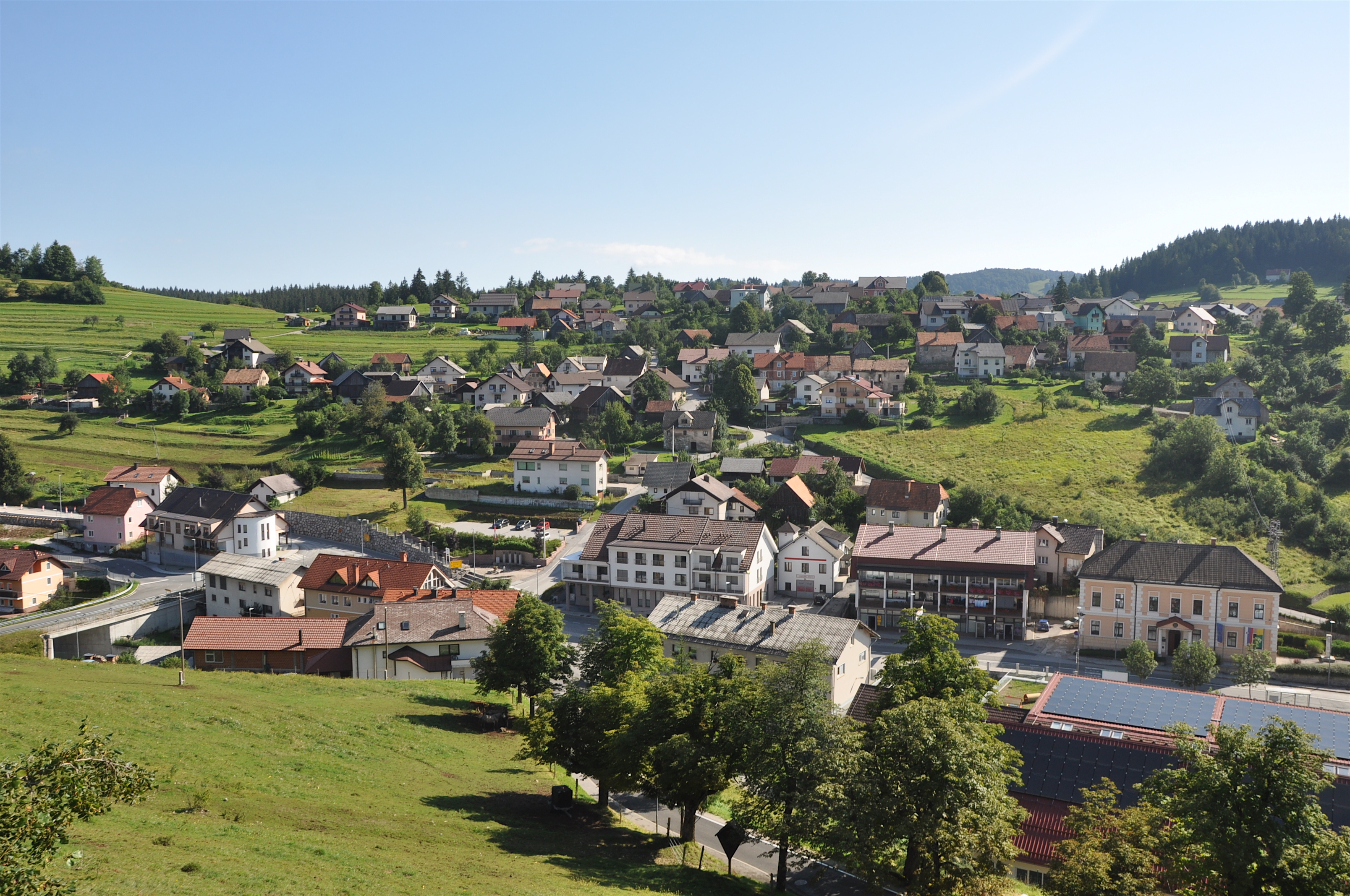 Hrib-Loški potok, town in Slovenia